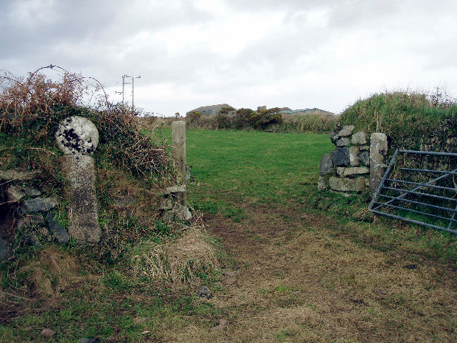 Gate and cross, Downs Barn farm. One of many ancient crosses in the fields and hedges near St Buryan.